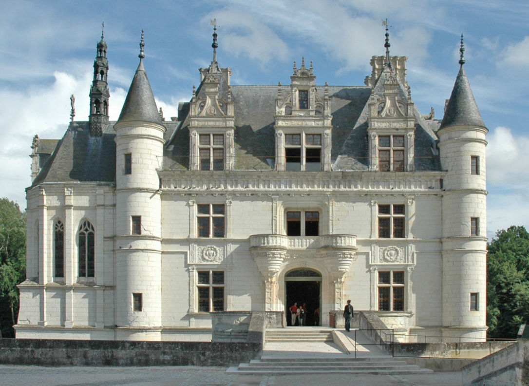 Entrance (north) facade of the Château de Chenonceau